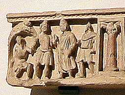 Decorative elements from Stupa C1, Hadda.